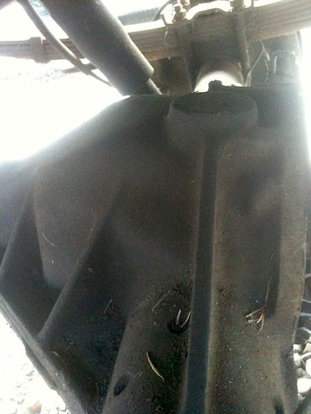 As seen from the top, Dana 61 external case is similar to Dana 60 HD in its use of dual ribbing: a reinforcement truss extends from the tube all the way around the differential case, in addition to raised cover flange. (On Dana 60 “standard duty” the tube reinforcement extends diagonally to join with the cover flange.) Dana catalog part #605022-14[1]